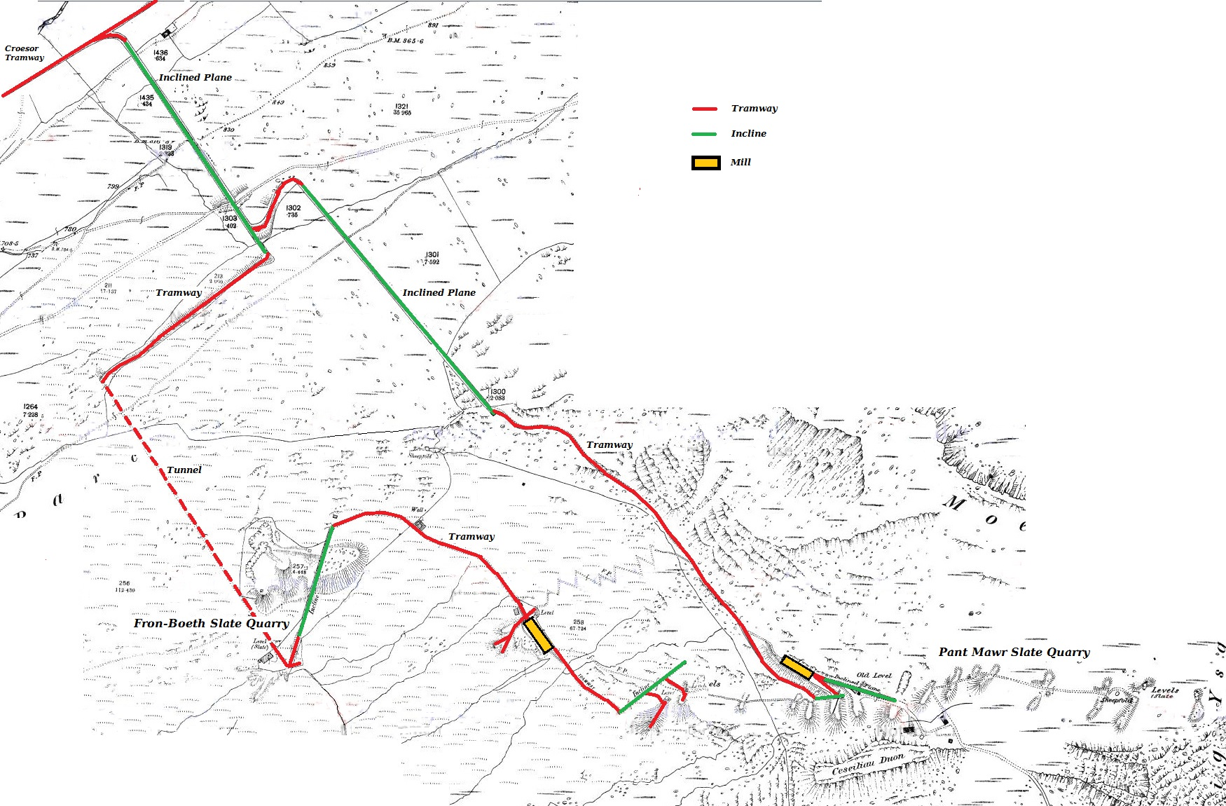 A composite map of the Pant Mawr and Fron-Boeth quarries in Gwynedd, North Wales. The Pant Mawr section dates from 1889, and the Fron-Boeth section dates from 1900.